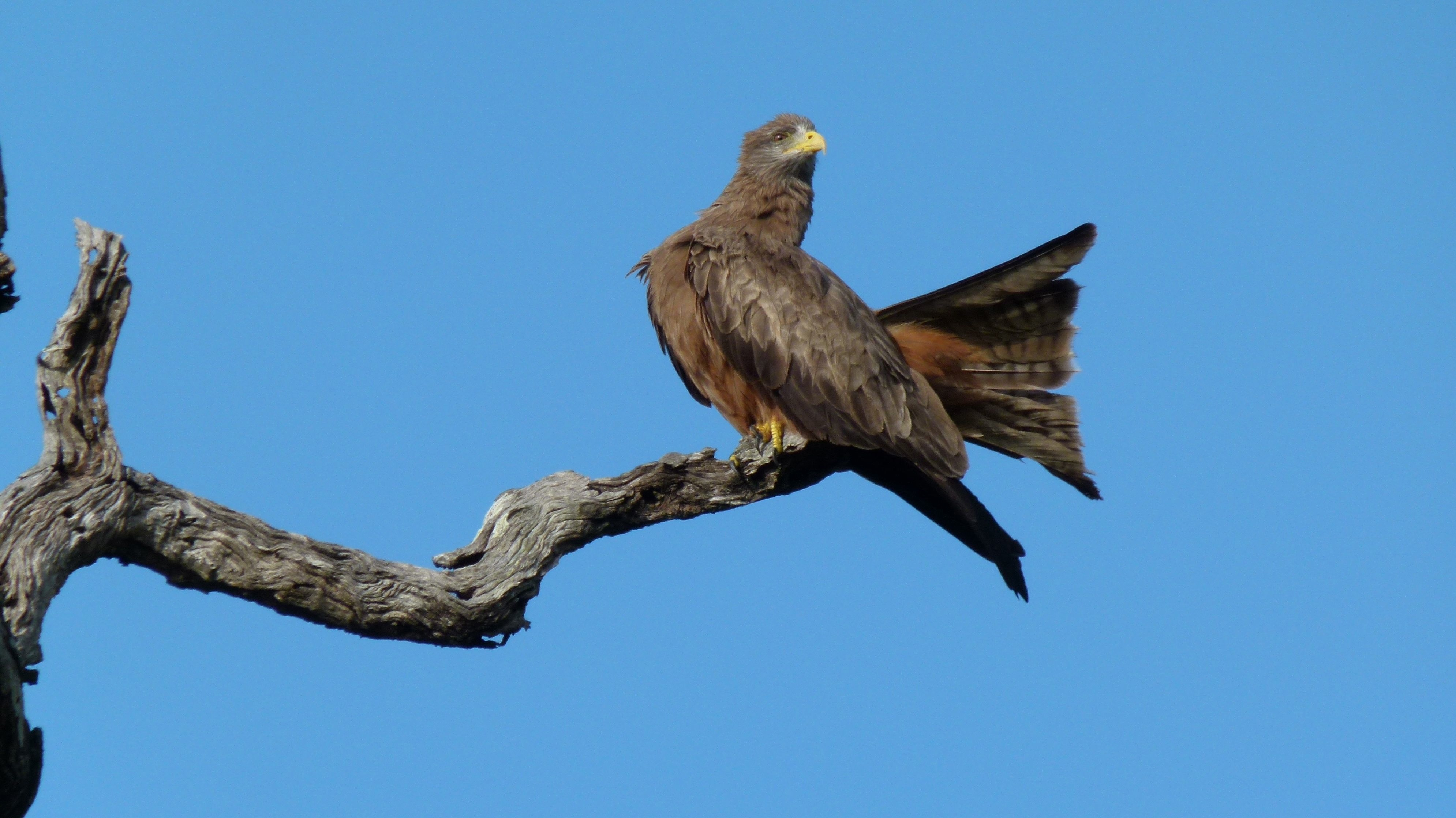 H4-1 North of Lower Sabie, Kruger NP, SOUTH AFRICA